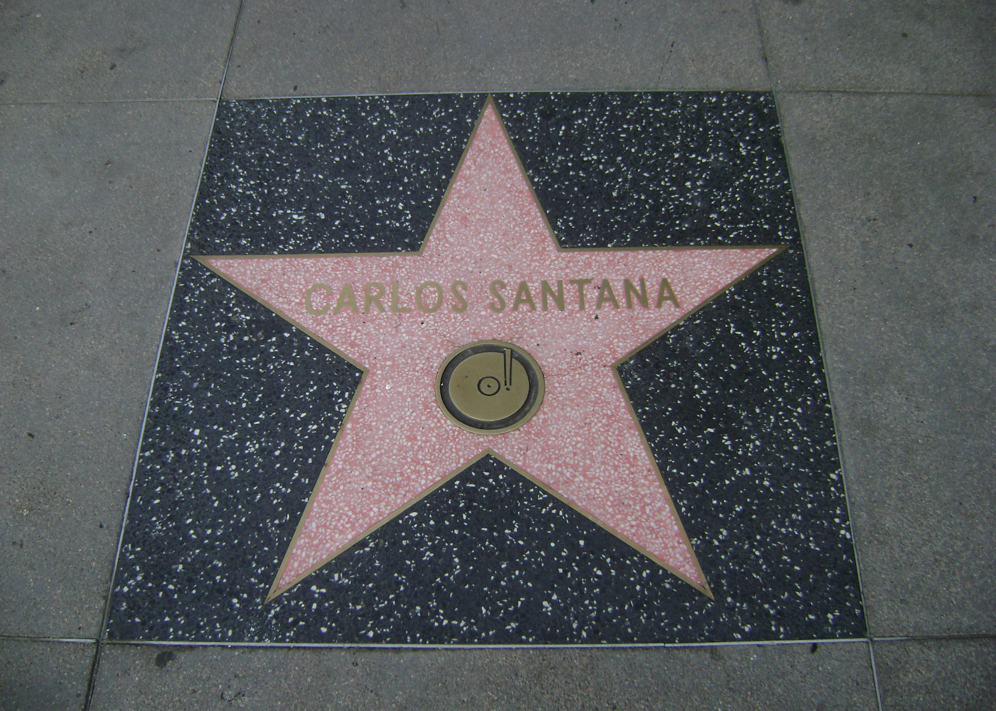 Carlos Santana's star on the Hollywood Walk of Fame